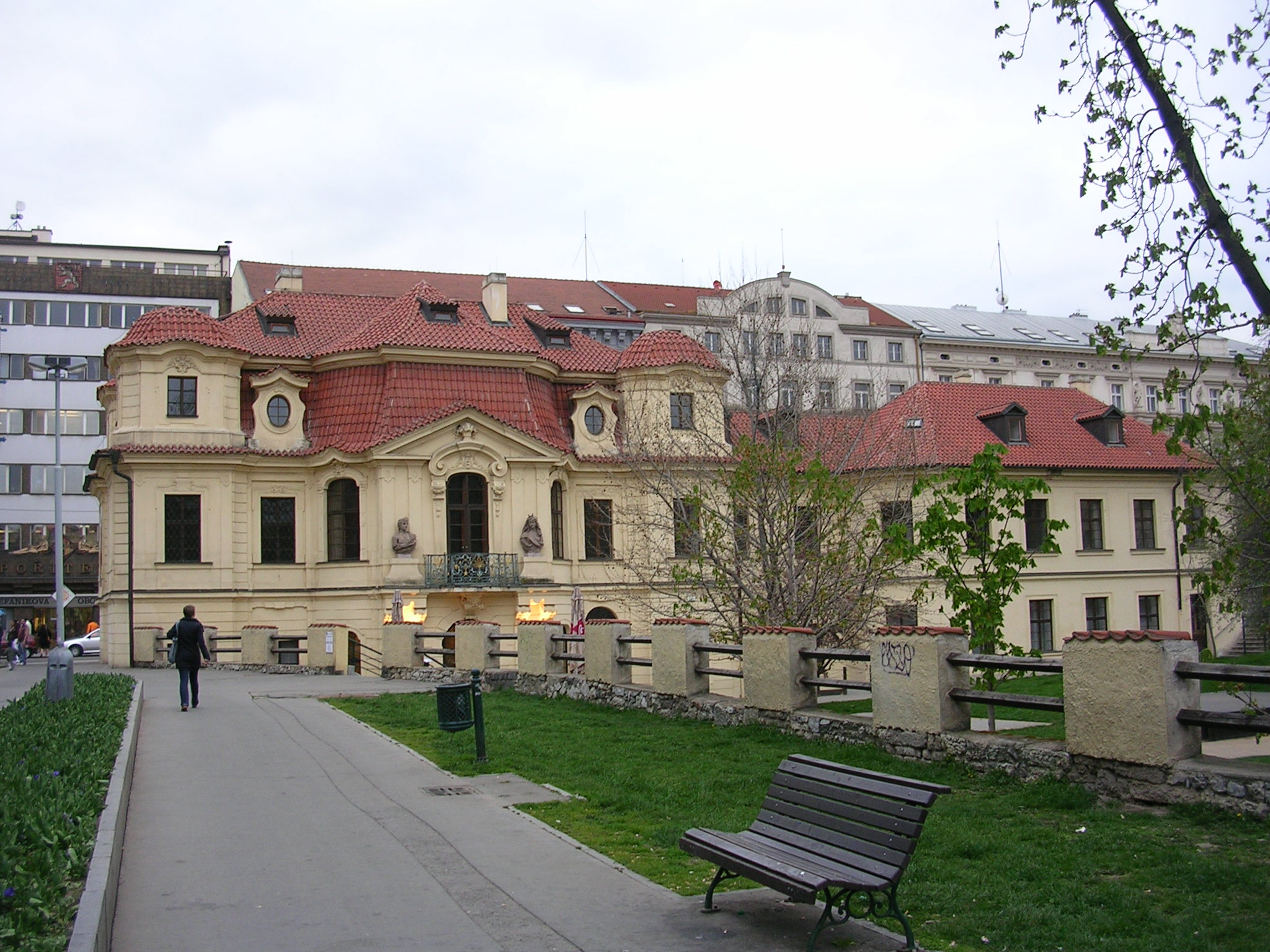 Smíchov, Prague, the Czech Republic.